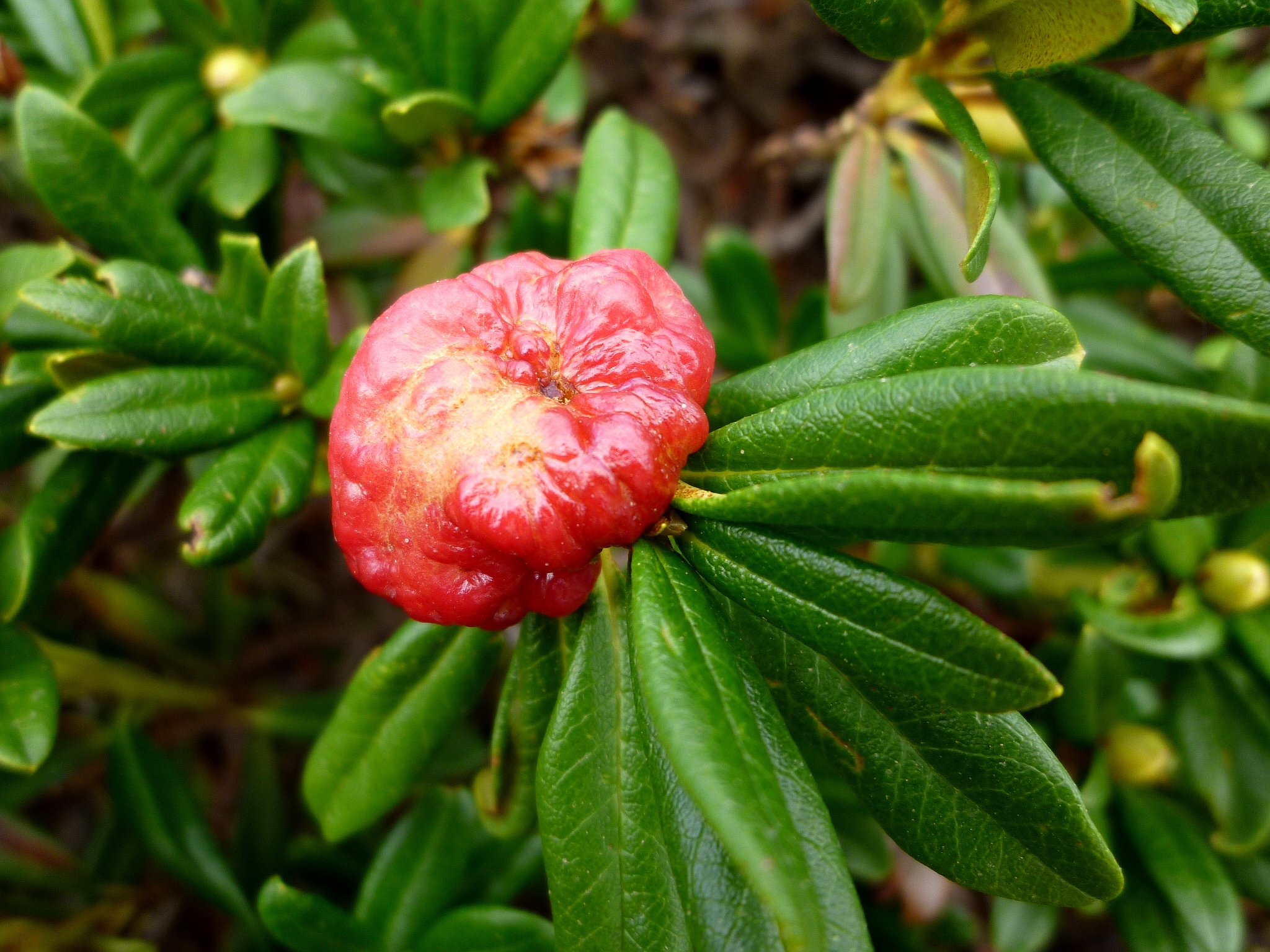 Rhododendron ferrugineum with gall. Near the Estany Gento (Pallars Jussà - Catalunya, at 2,150 m altitude